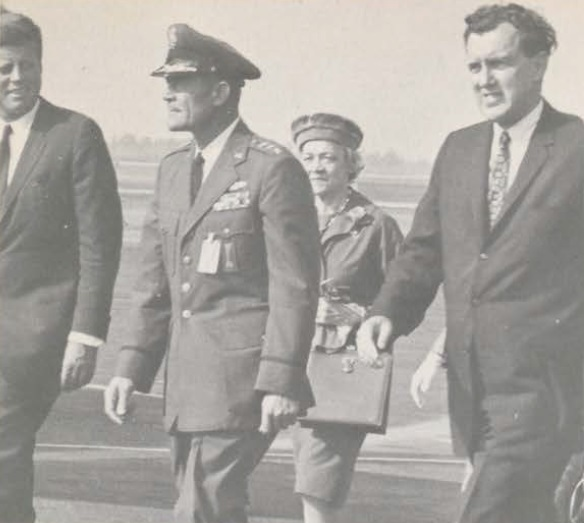 Commanding General of the Eight Air Force, Lieutenant General Joseph J. Nazzaro with U.S. President John F. Kennedy during a visit to Dow Air Force Base in 1962.